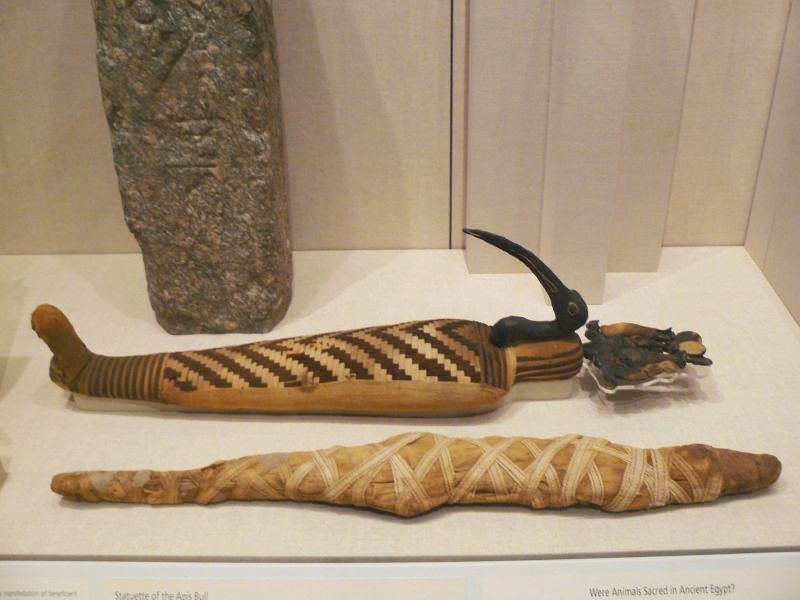 Ibis Mummy, 30 B.C.E.-100 C.E. Bronze, linen. Brooklyn Museum, Col. Robert B. Woodward, 14.655. Wikipedia Loves Art at the Brooklyn Museum This photo of item # [1] at the Brooklyn Museum was contributed under the team name "trish" as part of the Wikipedia Loves Art project in February 2009. Brooklyn Museum The original photograph on Flickr was taken by Trish Mayo—please add a comment to the original Flickr page whenever a use has been made on Wikipedia or another project. Project galleries on Flickr: this institution, this team